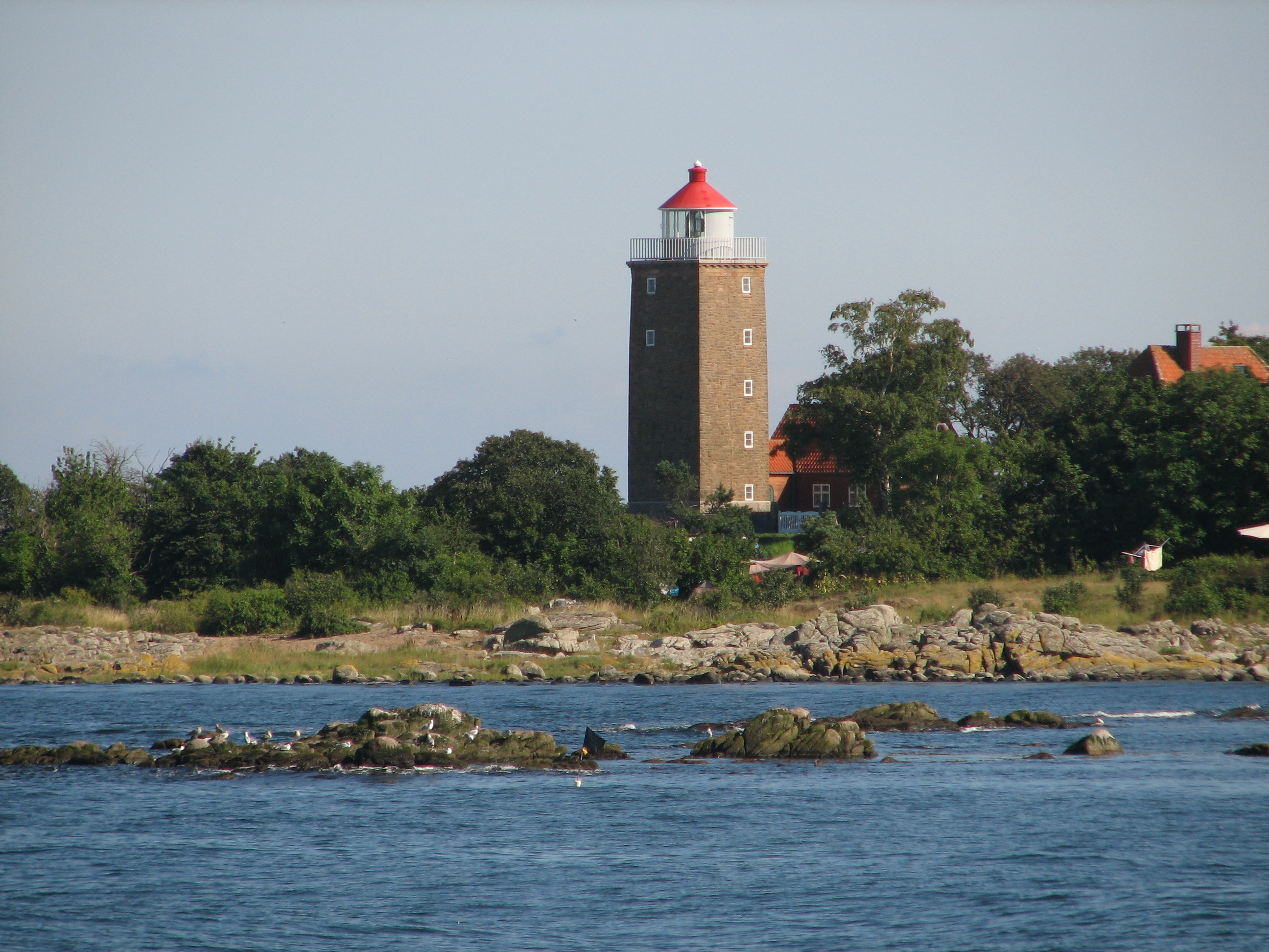 Svaneke Fyr is a lighthouse placed on Sandkås Odde close by Svaneke on the east-side of Bornholm. The lighthouse is square build in sandstone, the building started in 1918 and was finished in 1920.